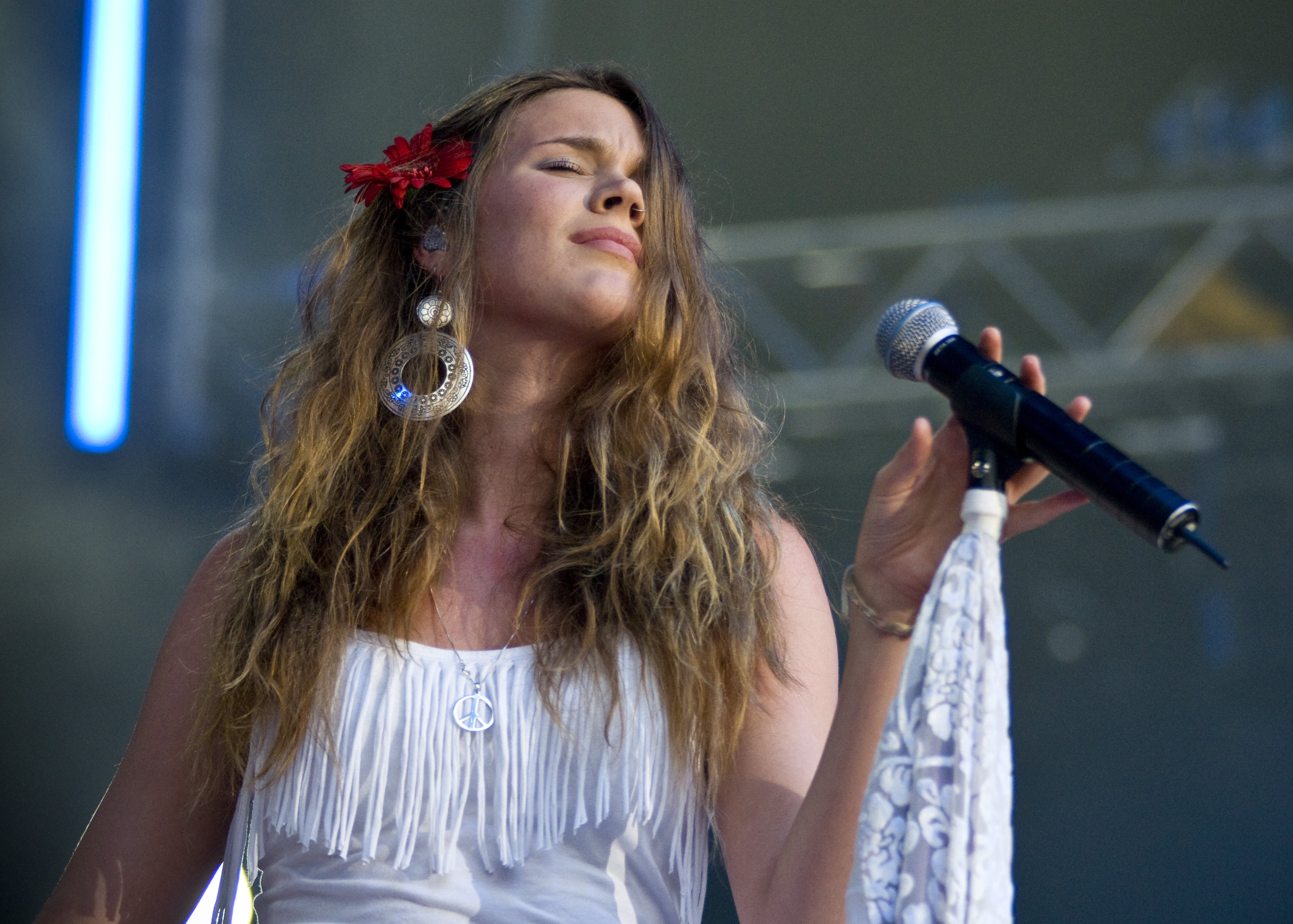 Joss Stone at Stockholm jazz fest, 19th July, 2009.